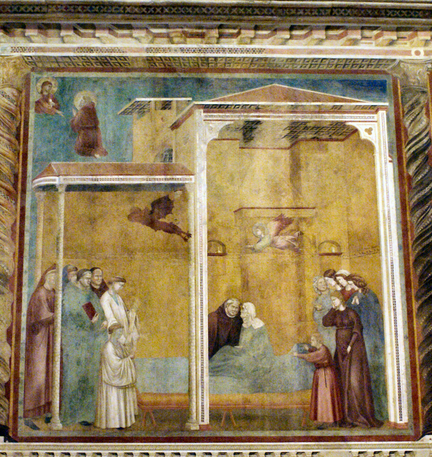 Giotto: Confession of the woman come back to life,Basilica of Saint Francis,Assisi